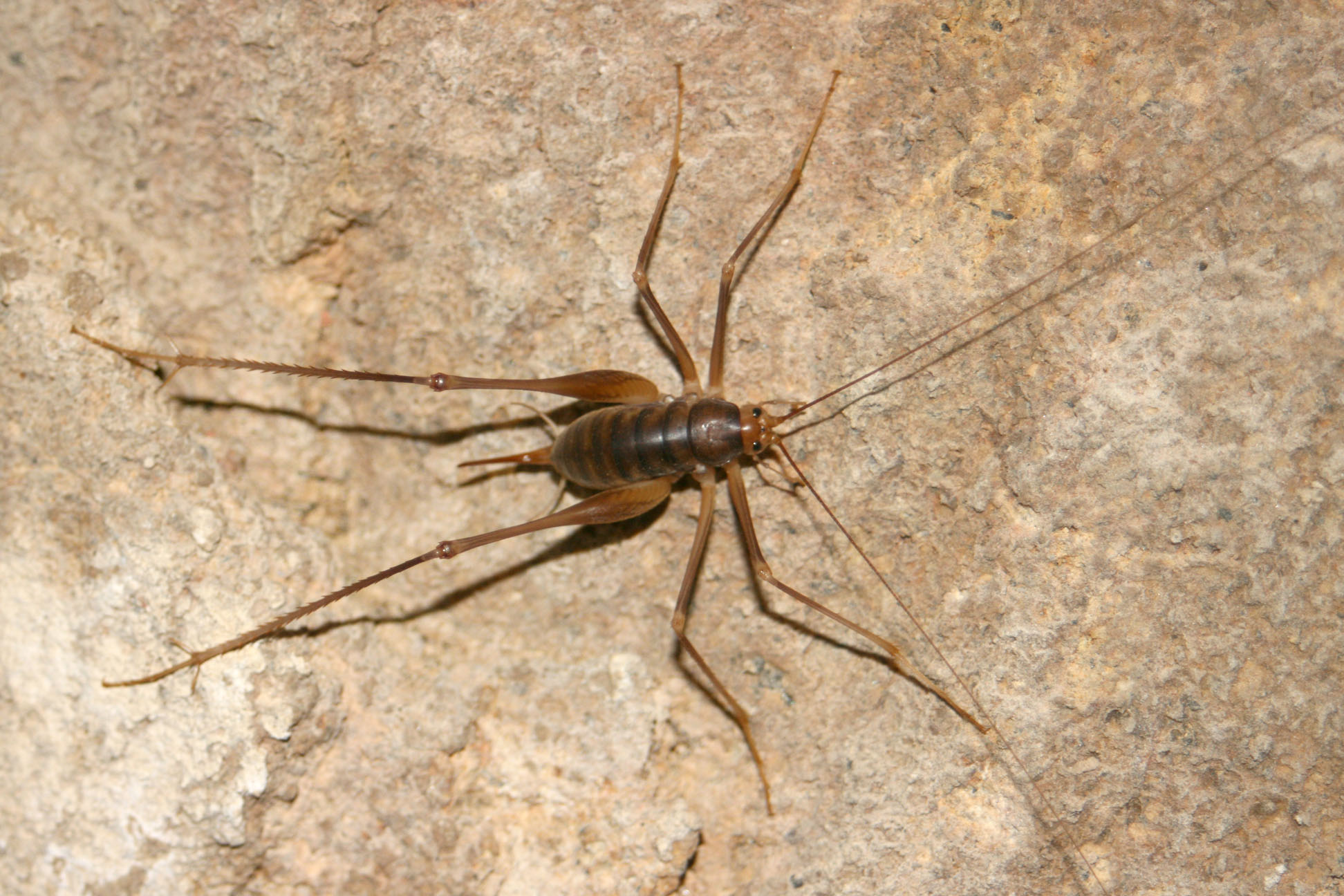 Female cave-dwelling cricket Dolichopoda schiavazzii from Italy (Tuscany, Vetulonia, Etruscan necropolis near Via dei Sepolcri)